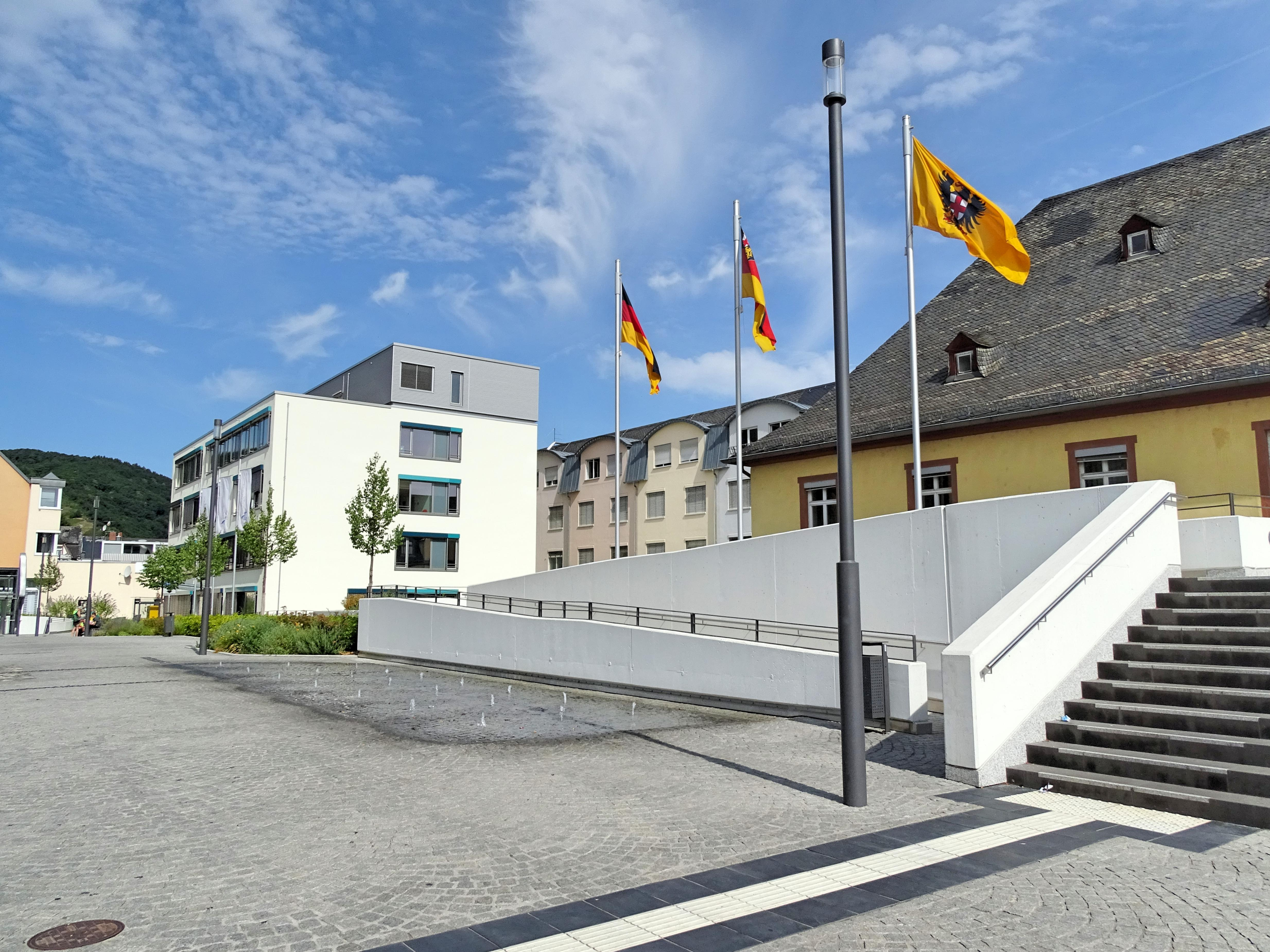 56154 Boppard, Germany